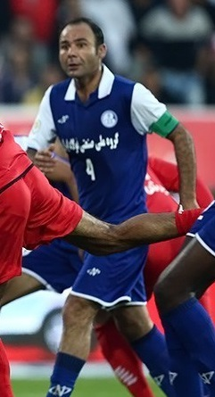 Sohrab Bakhtiarizadeh